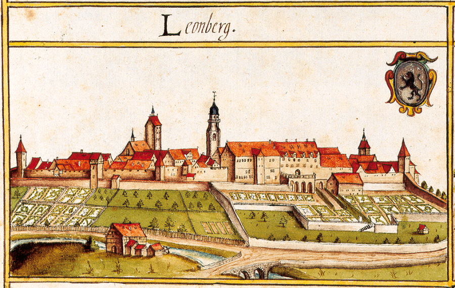 View of Leonberg from the forest register books created by Andreas Kieser